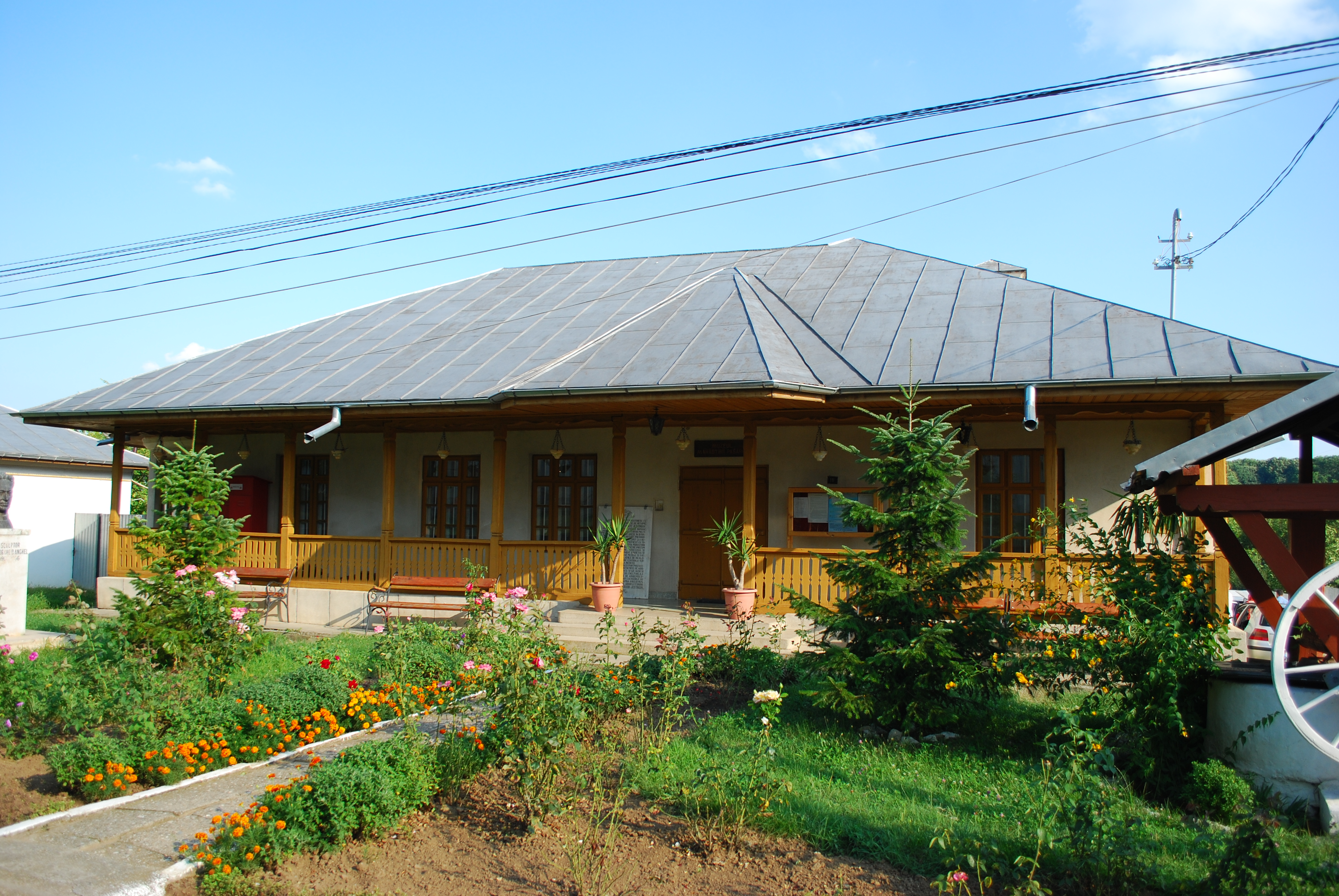 Former refectorium (currently museum) at the Pasărea monastery, Brăneşti commune, Ilfov County, RomaniaRomână: Fosta trapeză (astăzi muzeu) de la mănăstirea Pasărea, comuna Brăneşti, judeţul Ilfov, România